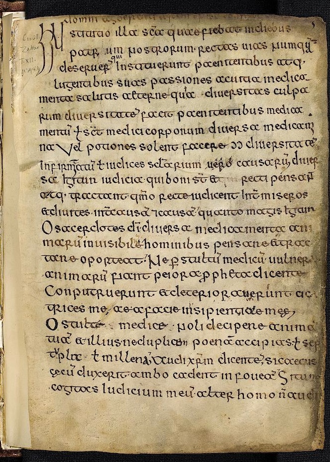 Vatican, Biblioteca Apostolica Vaticana, Pal. lat. 554, fol. 5r